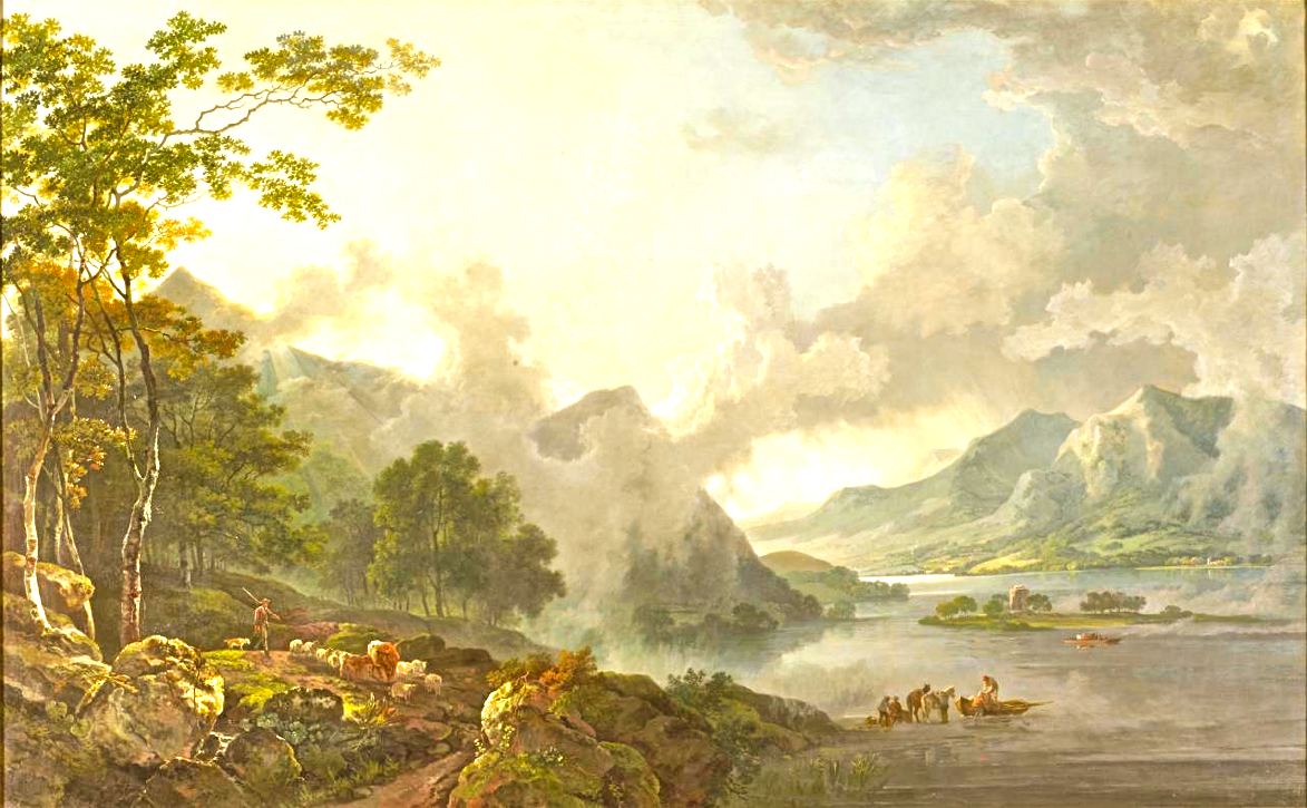 During the 1770s the scenery of Lake District became a popular attraction for tourists, aesthetes and painters and particularly after Thomas West's Guide to the Lakes of 1778, which commended 'the noble scenes of Poussin exhibited on Windermere-Water'. Lake Windermere, with Belle Isle, its largest island, was one of the principal attractions. and it featured in late C18 guides to the area, including Thomas West's Guide to the Lakes of 1778,. The island, formerly Longholme, was bought by Thomas English in the 1772 and the architect Plaw built a three story rotunda house (just discernible in the painting) with a massive classical portico.. In 1781 he sold the site to Isabella Curwen, whose husband, John Christian Curwen, renamed the island 'Belle Isle'. The island remained in the ownership of the Curwen family until 1992.